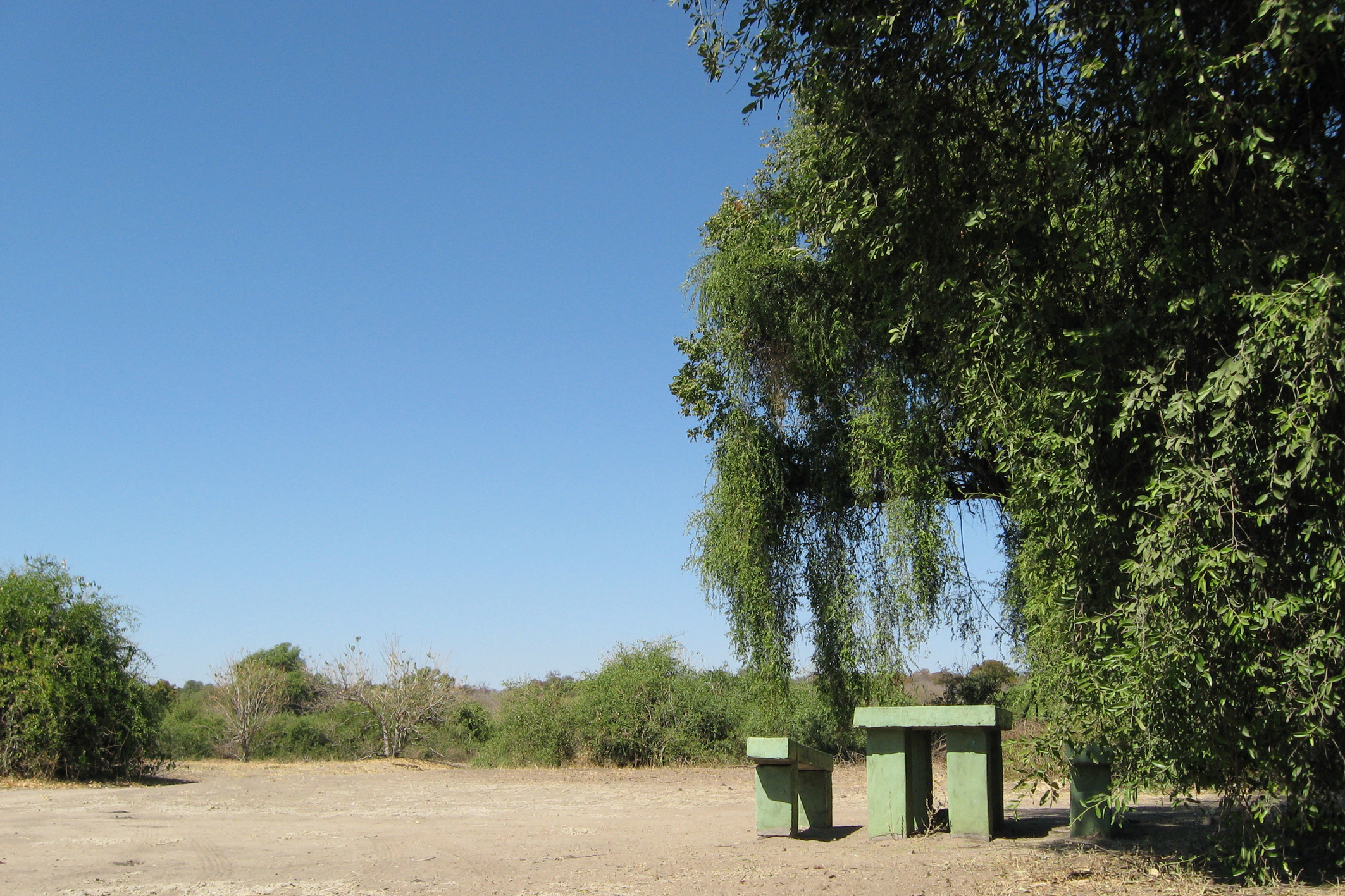 Wide open seating area for tourists in Chobe National Park, Botswana